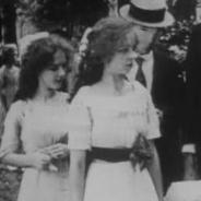 Dorothy Gish and Lillian Gish in a scene from the movie "The Painted Lady" (1912, directed by David Wark Griffith).